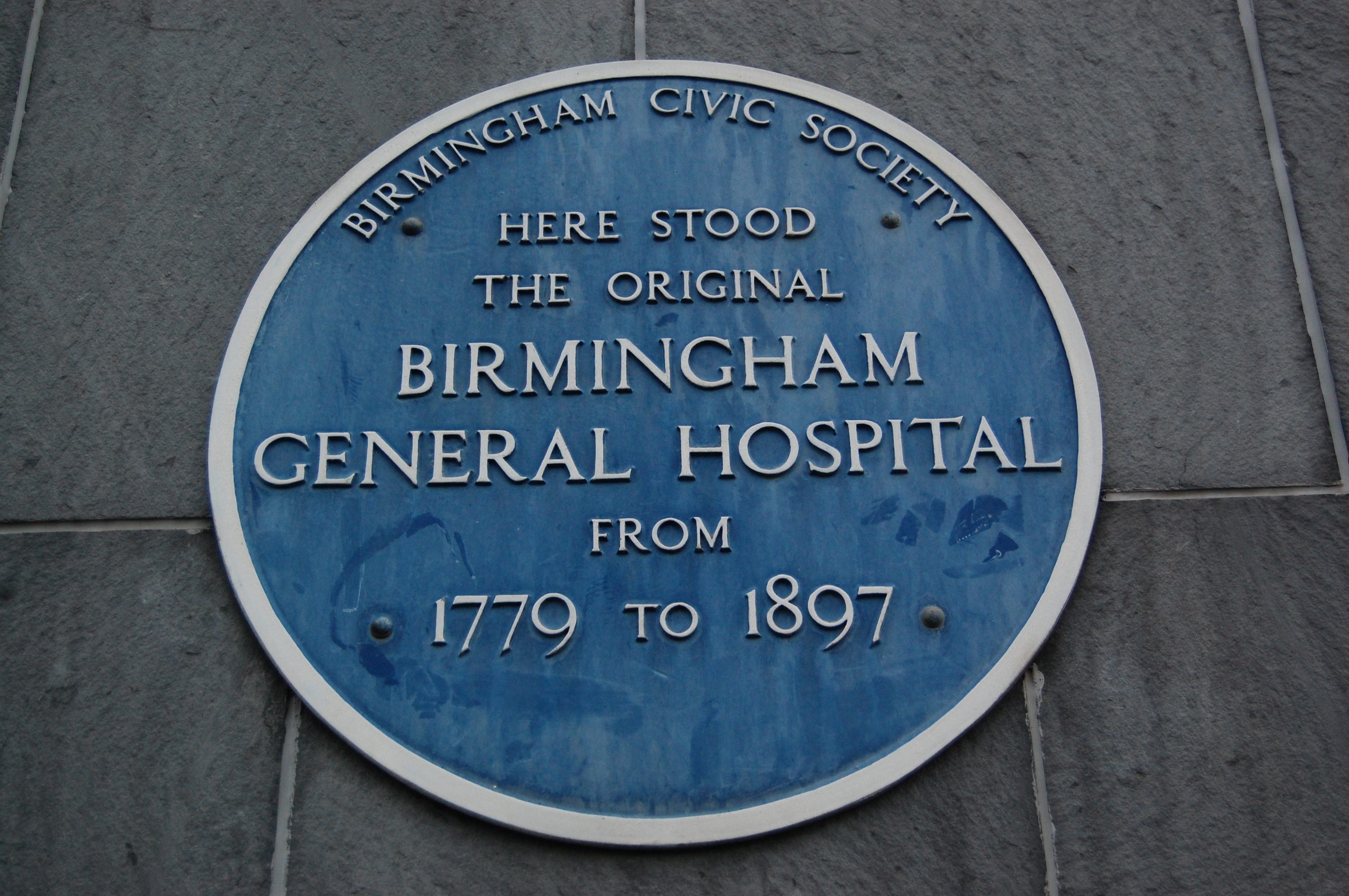 Blue plaque on Centro House, headquarters of the West Midlands Passenger Transport Executive, 16 Summer Lane, Birmingham, England, commemorating the first Birmingham General Hospital.